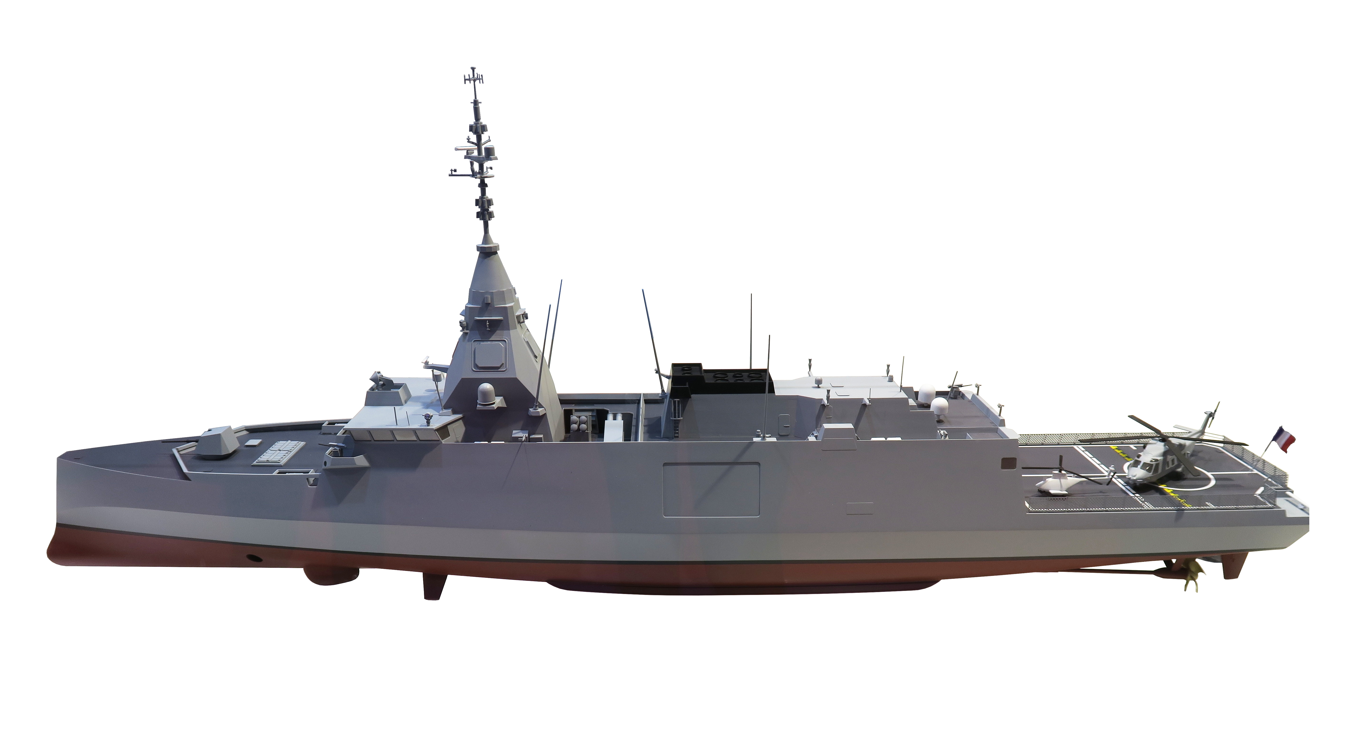 Model of the French FTI (Frégate de taille intermédiaire) concept exposed at the 2016 Euronaval exhibition.